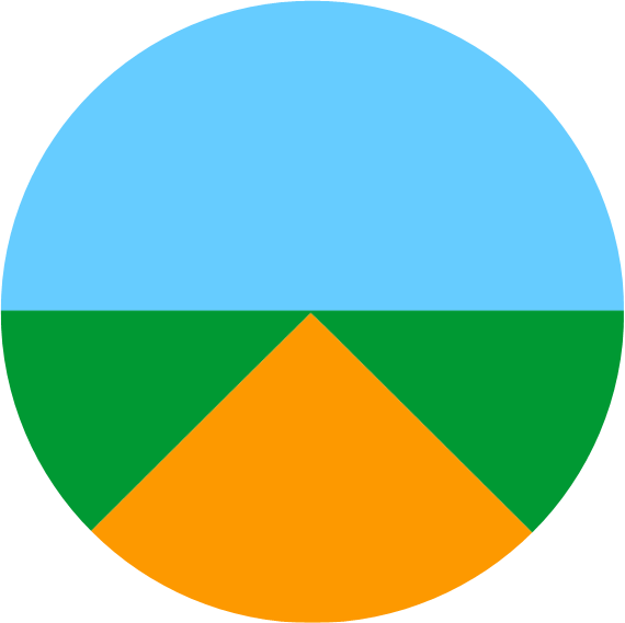 road on grass